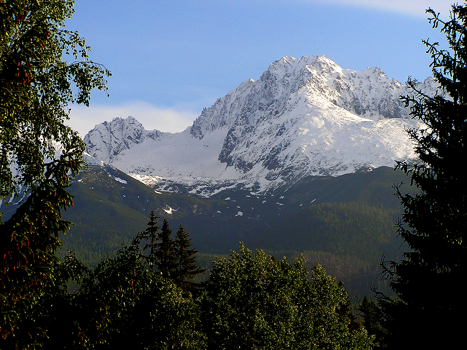 High Tatras, highest peak, Gerlach (south face)